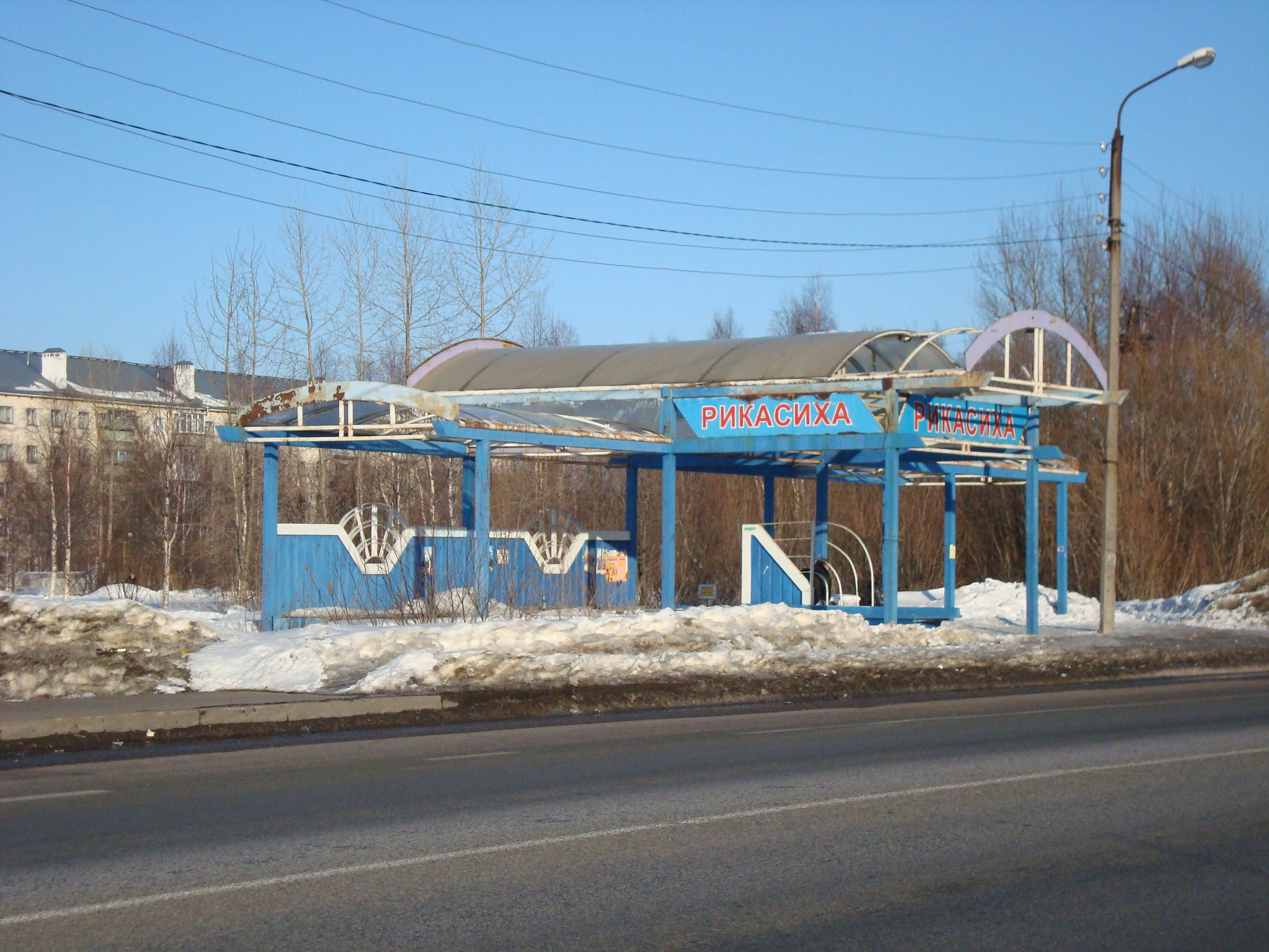 Rikasikha bus stop